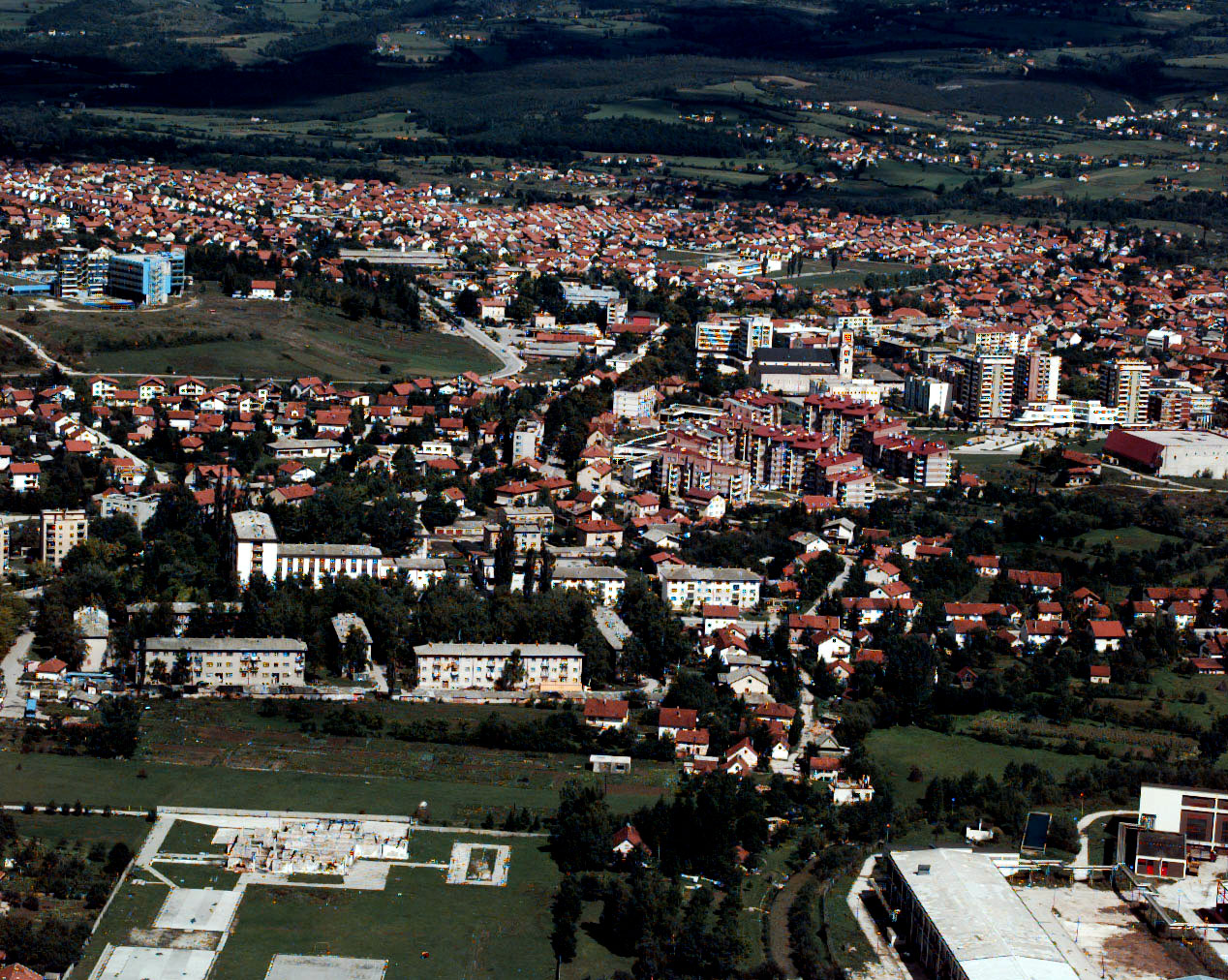 960914-F-6701P-002 Sept. 14 Bugojno, Bosnia- Herzegovina. Quite streets in the city of Bugojne on election day, September 14,1996.